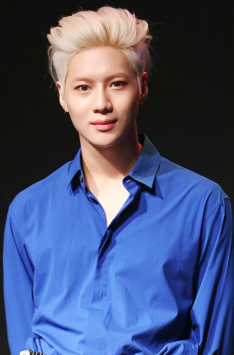 Taemin at a showcase in Taiwan, in May 21, 2016.